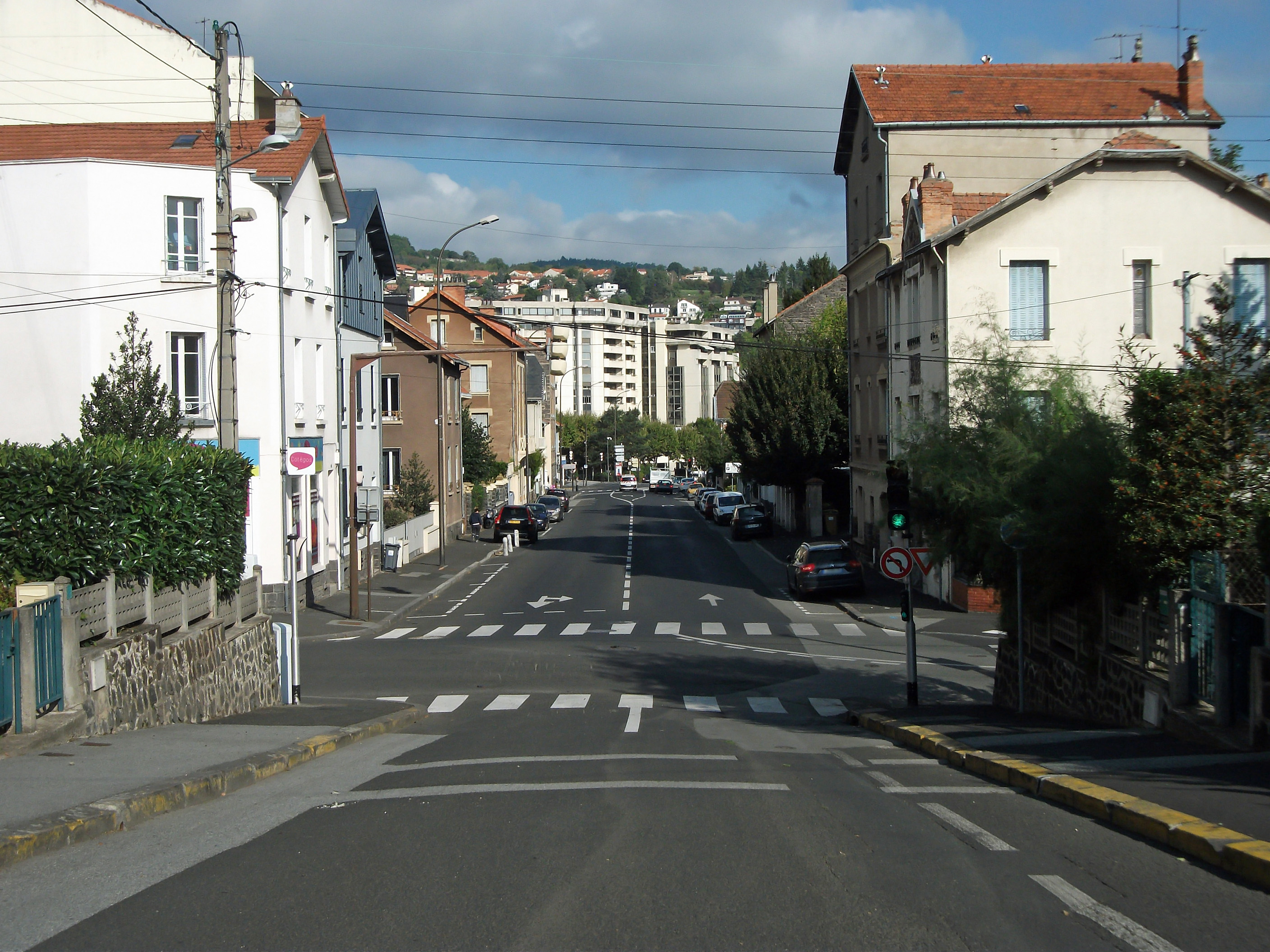 Avenue Aristide Briand in Chamalières, Puy-de-Dôme, Auvergne, France. [9051]